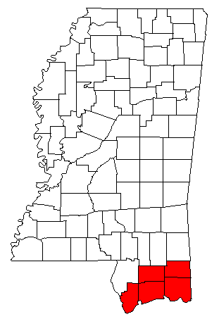 Map of Mississippi highlighting the Gulfport-Biloxi-Pascagoula Combined Statistical Area; created using the GIMP. Made by Acntx and tranferred to Commons by User:Alastor Moody.